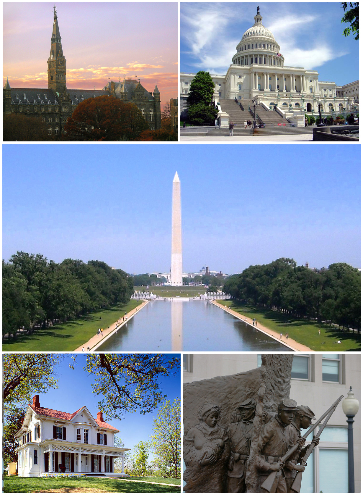 Montage of Washington, D.C. landmarks